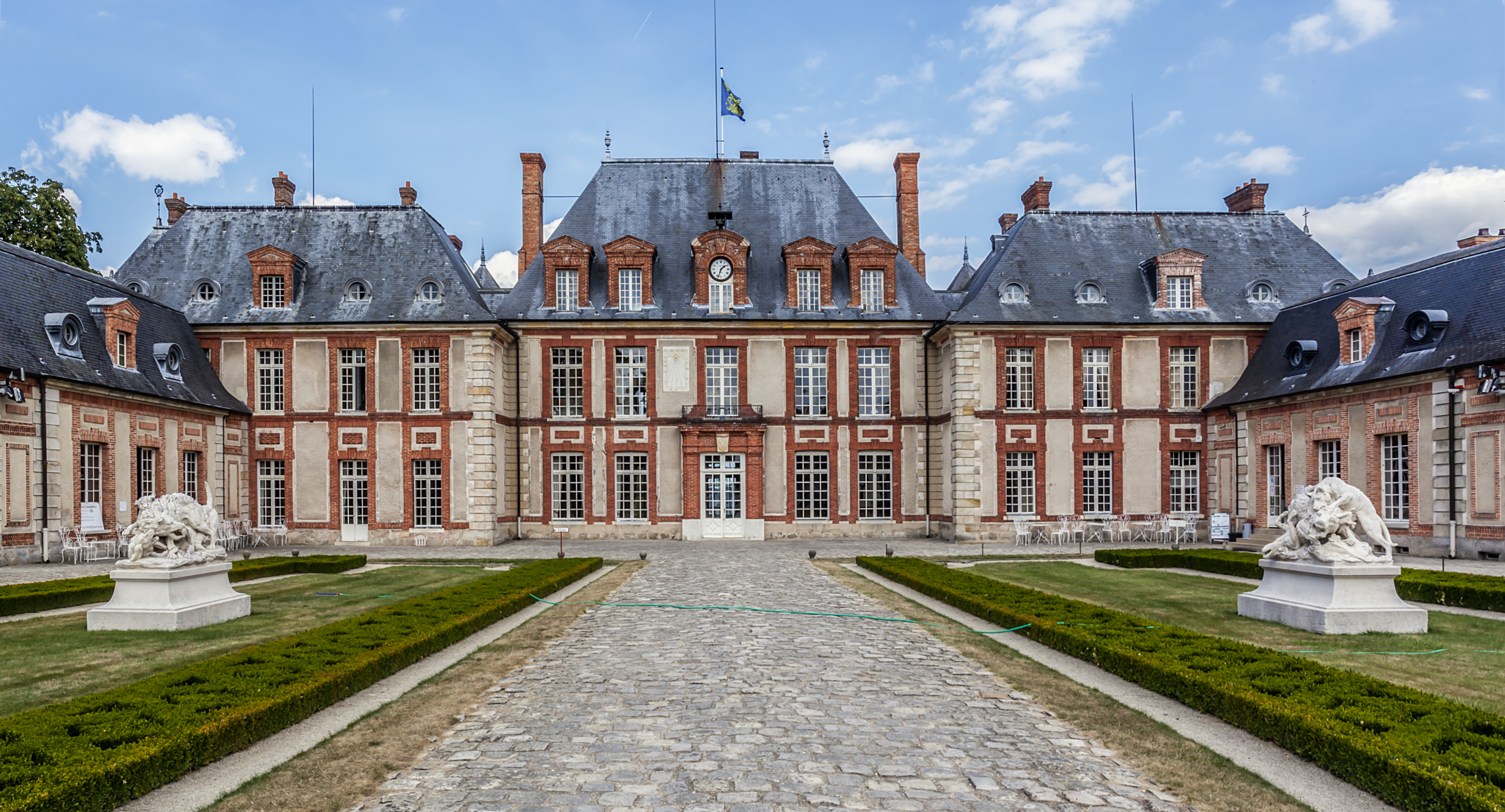 The Breteuil Castle, is a castle located in Choisel (near Paris) in the Chevreuse Valley. It is a historical monument since July 23, 1973, its park and gardens are labeled "remarkable garden"